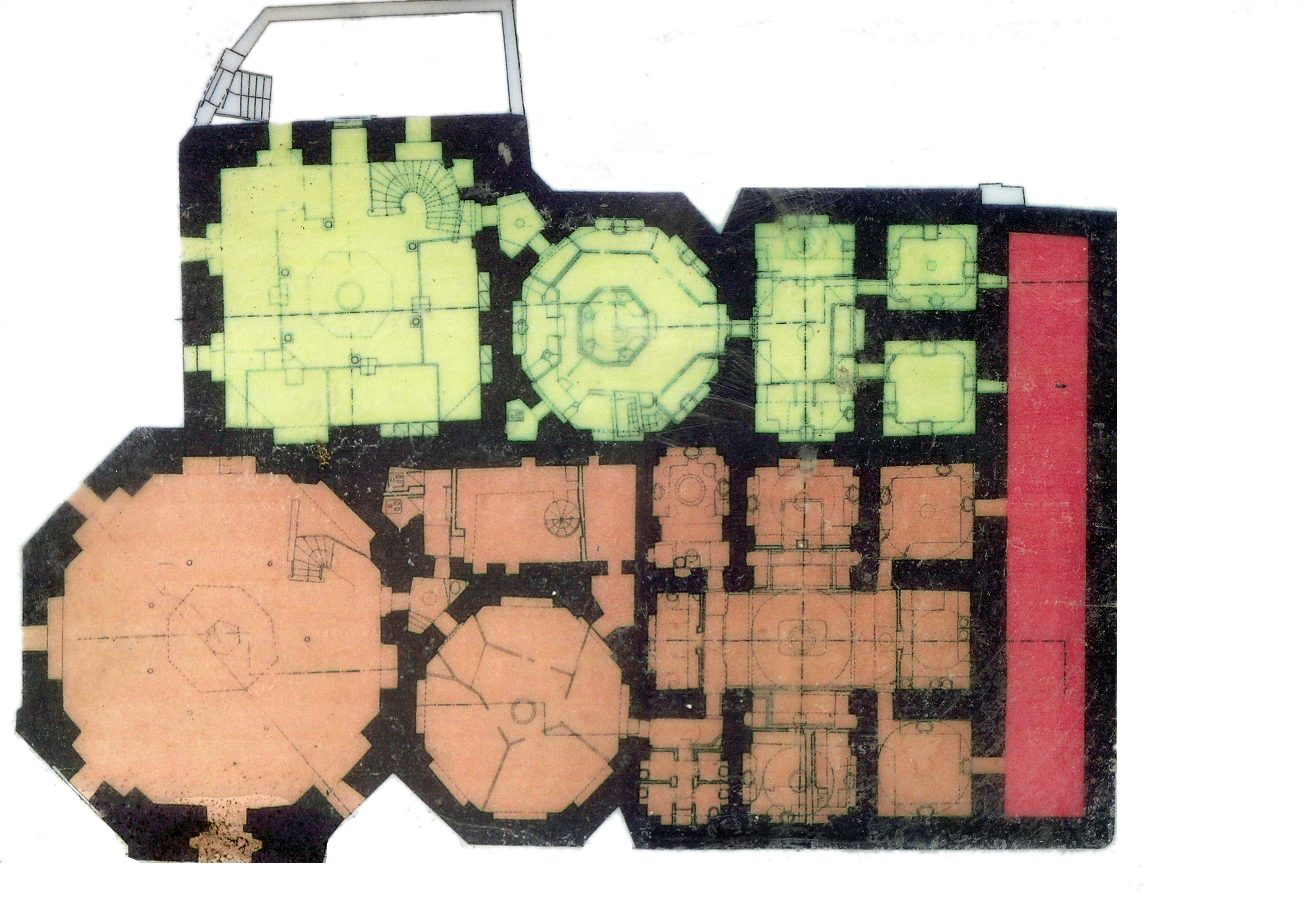 Overall plan of the Bey Hamam in Thessaloniki (1444). Photograph taken by Marsyas 17:33, 26 February 2006 (UTC)